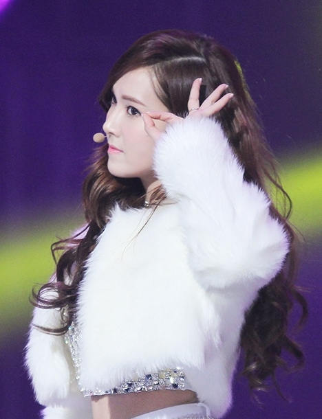 Jessica Jung at MBC Gayo Daejejeon on December 31, 2013.